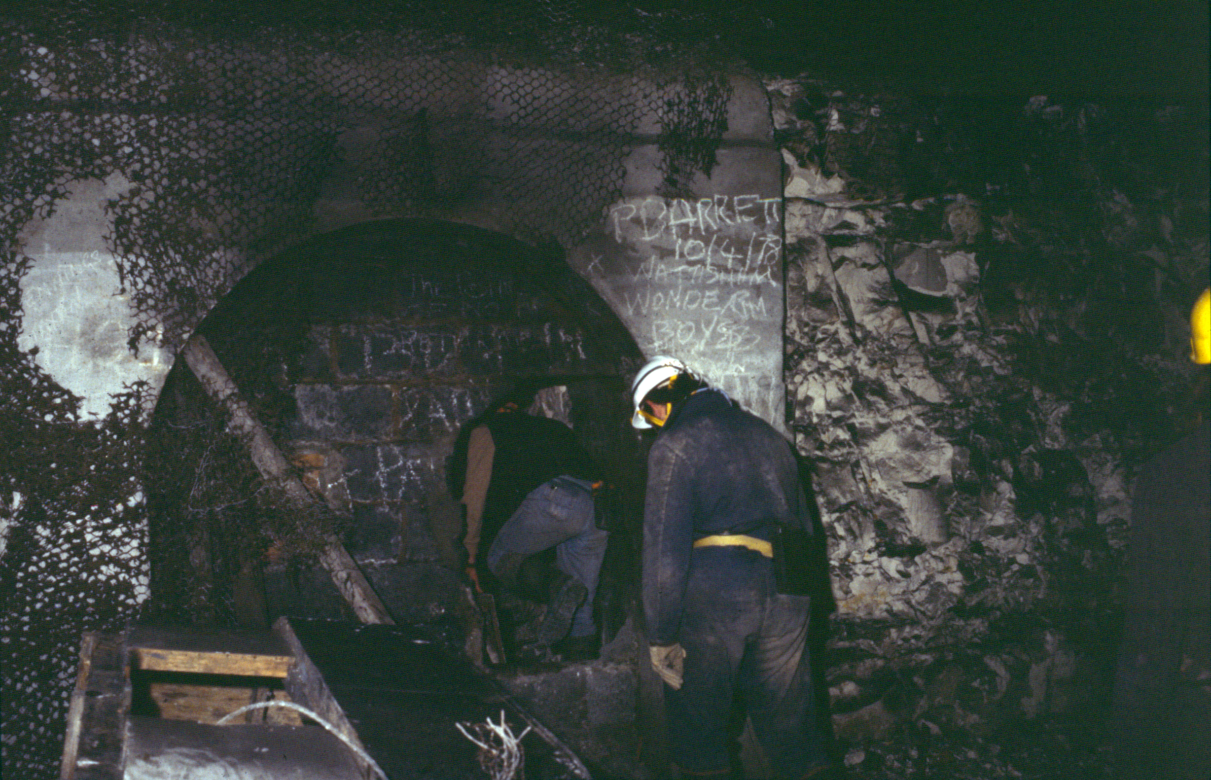 Ramsgate Harbour railway tunnel